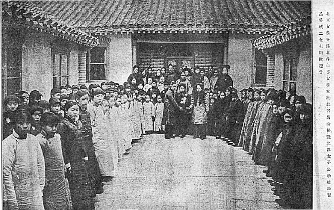 Lü Bicheng and Lü Qingyang welcomed by women in Beijing